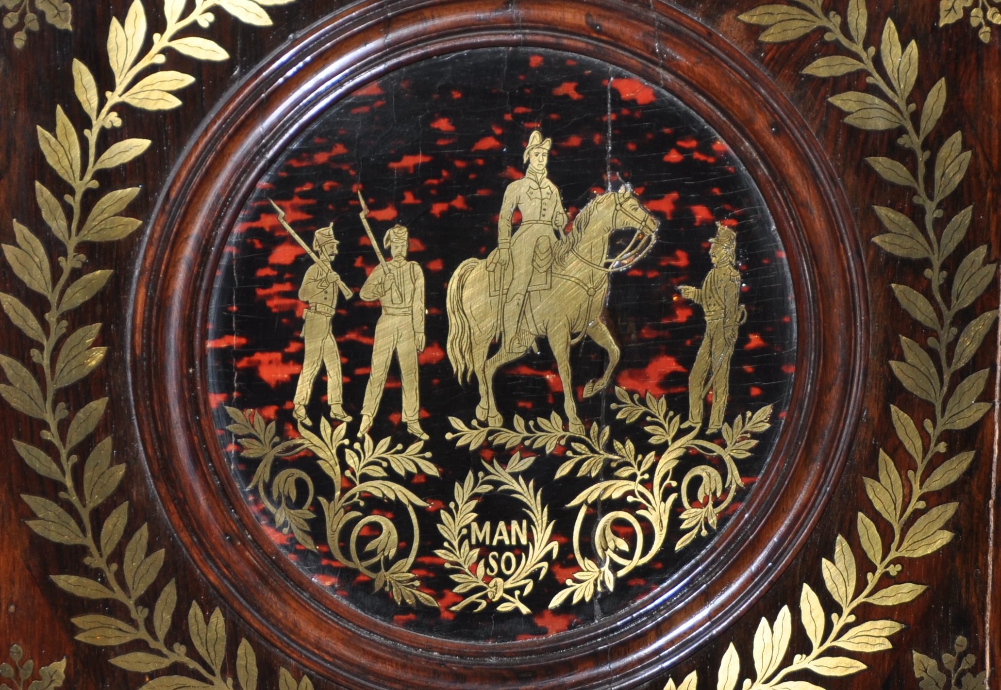 Josep Manso Solà Detail of a furniture piece decorated with scenes of the Peninsular war (1866) Museu d'Història de Barcelona MUHBA